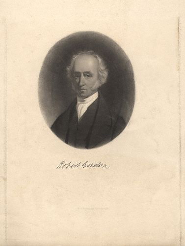 Robert Gordon (1786-1853)